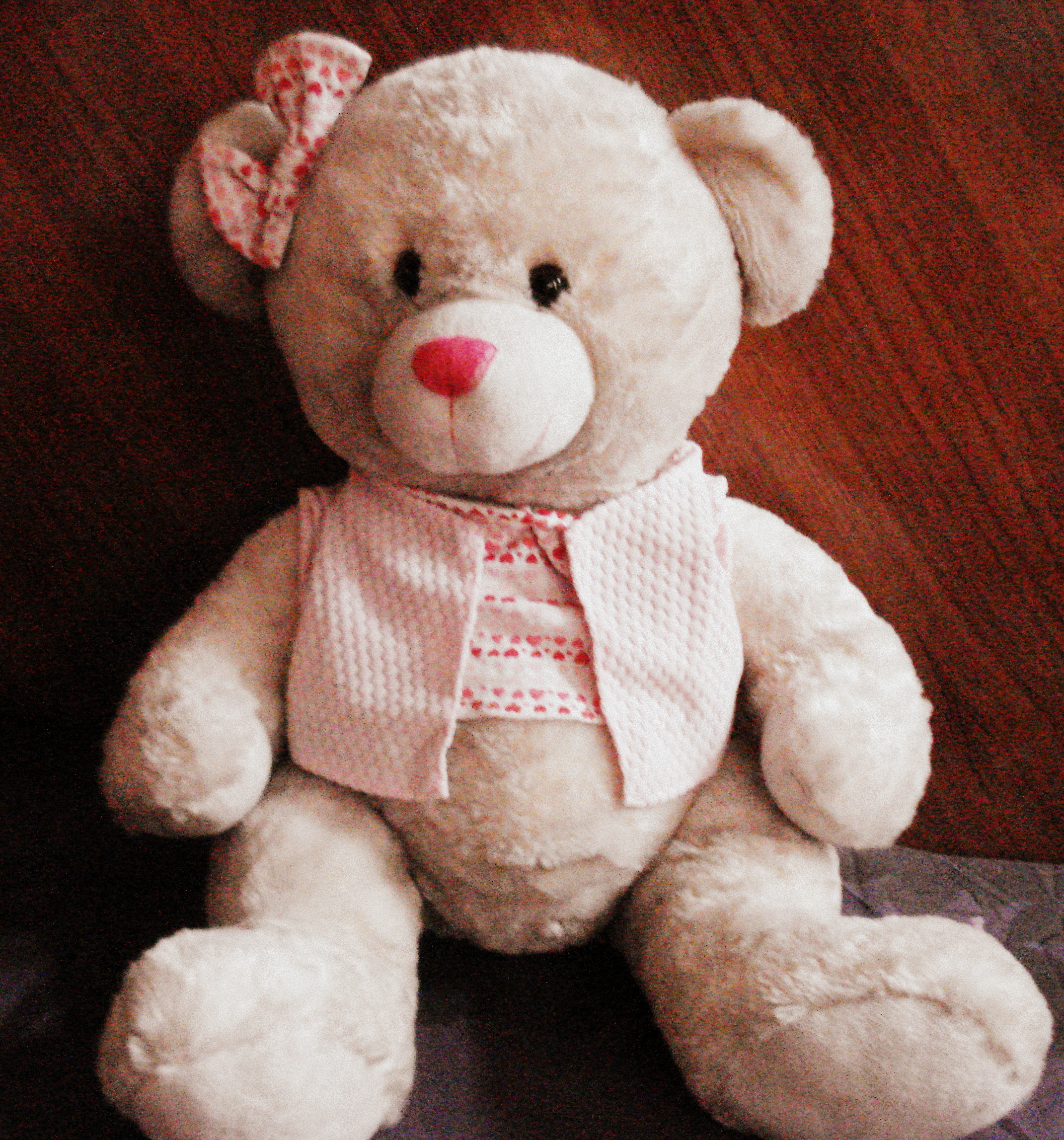 MY TEDDY